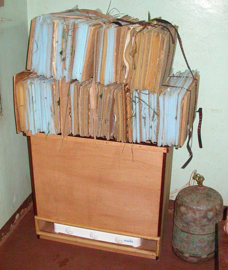 Drying herbarium specimens with a gas cooker and a wooden construction. Design of the Herbier de l'Université de Ouagadougou, Burkina Faso